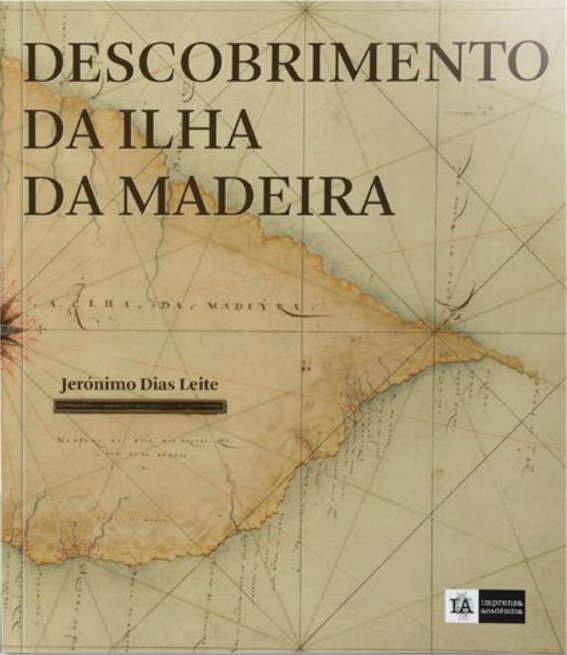 Descobrimento da Ilha da Madeira, 2016